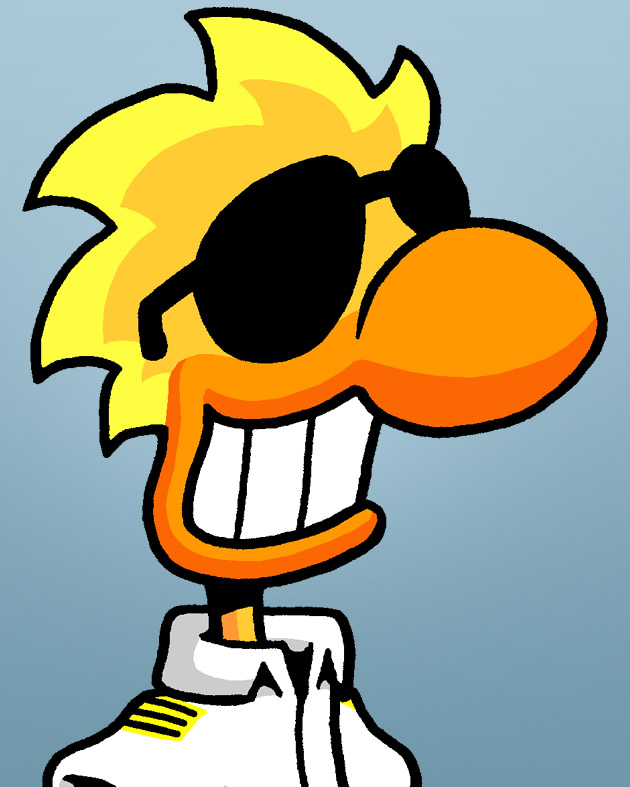 Michael and Stefan Strasser